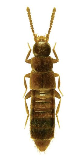 Schistoglossa hampshirensis